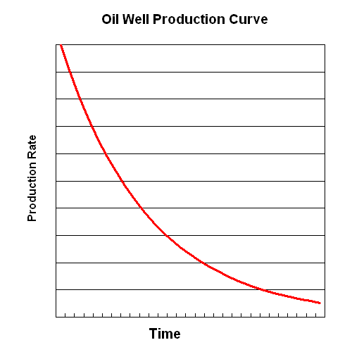 Plot of an oil well production decline curve generated using Excel